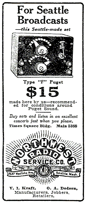 The Northwest Radio Service Company of Seattle sold radio equipment and operated local radio station KJR.